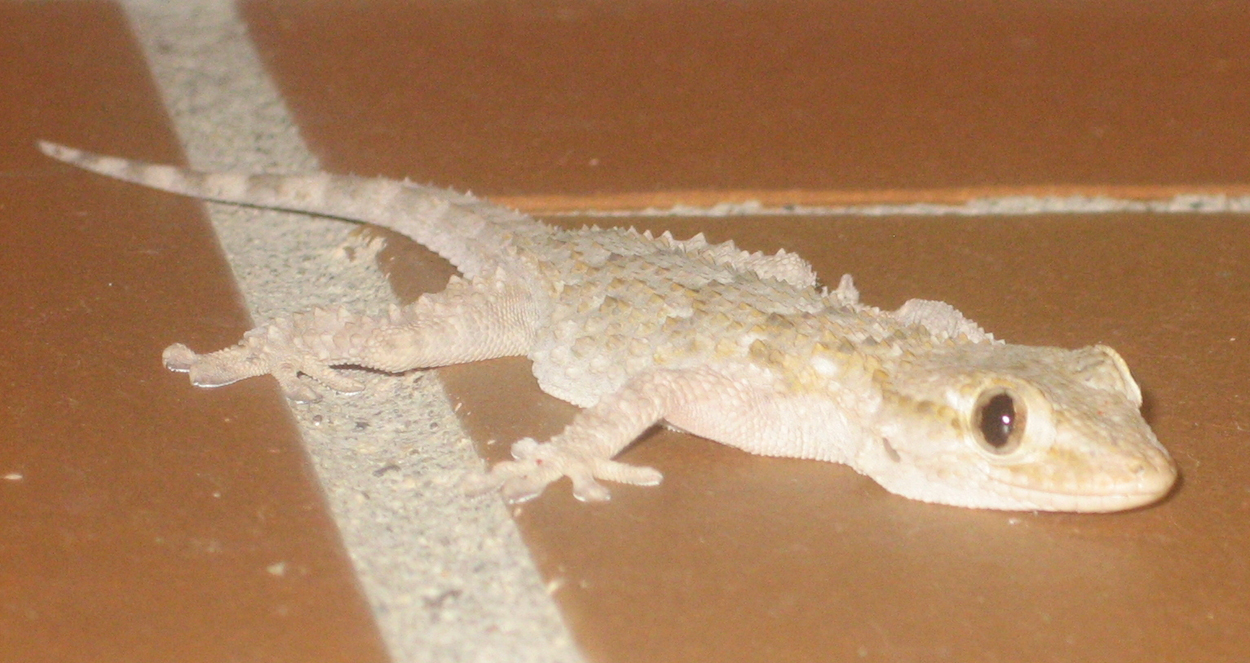 Moorish gecko in Finale Ligure, Italy